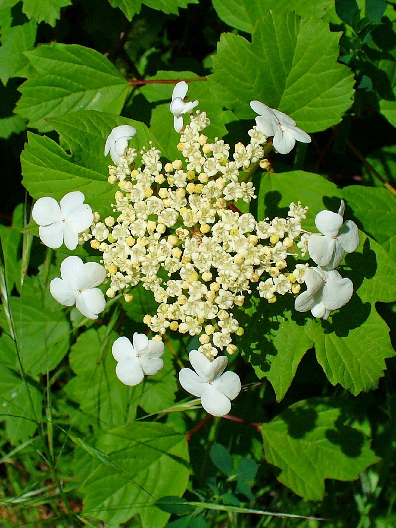 Viburnum opulus, Adoxaceae, Guelder Rose, Water Elder, European Cranberrybush, Cramp Bark, Snowball Tree, inflorescence. Karlsruhe, Germany.